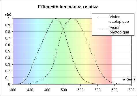 Comparison of scotopic vision and photopic vision relative efficiency